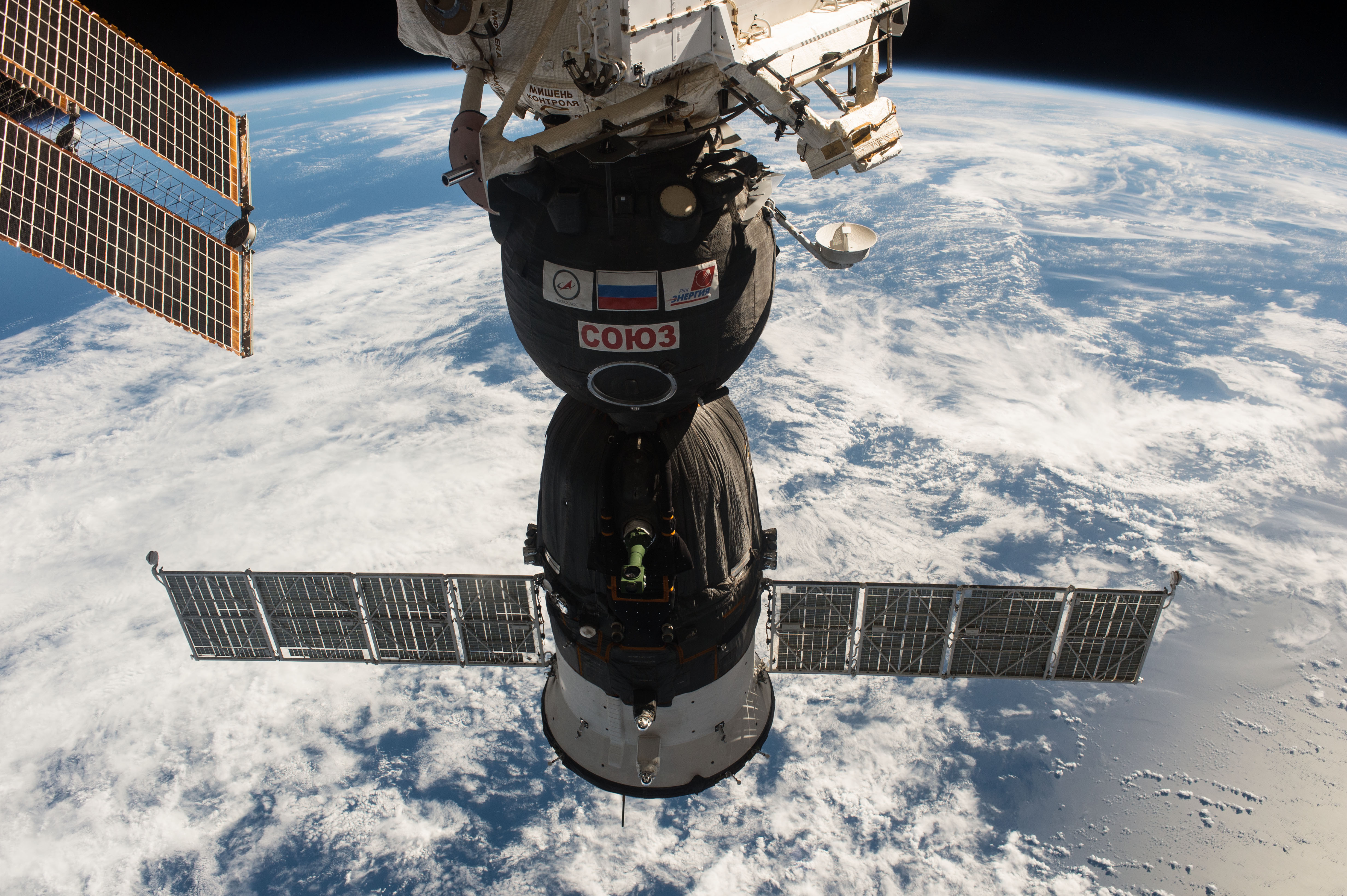 The Soyuz MS-01 spacecraft is seen docked to the International Space Station. The vehicle launched July 7, 2016 from the Baikonur Cosmodrome with Expedition 48-49 crewmembers Kate Rubins of NASA, Anatoly Ivanishin of Roscosmos and Takuya Onishi of the Japan Aerospace Exploration Agency (JAXA) onboard.